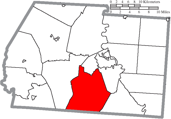 Map of the municipal and township boundaries of Ross County, Ohio, United States, as of the 2000 census, with the location of Huntington Township highlighted. Township borders are shown only in unincorporated areas in order to differentiate incorporated and unincorporated areas more clearly.